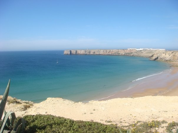 Cape St. Vincent, overlooking the Atlantic Ocean. Sagres Point can also be seen in the background